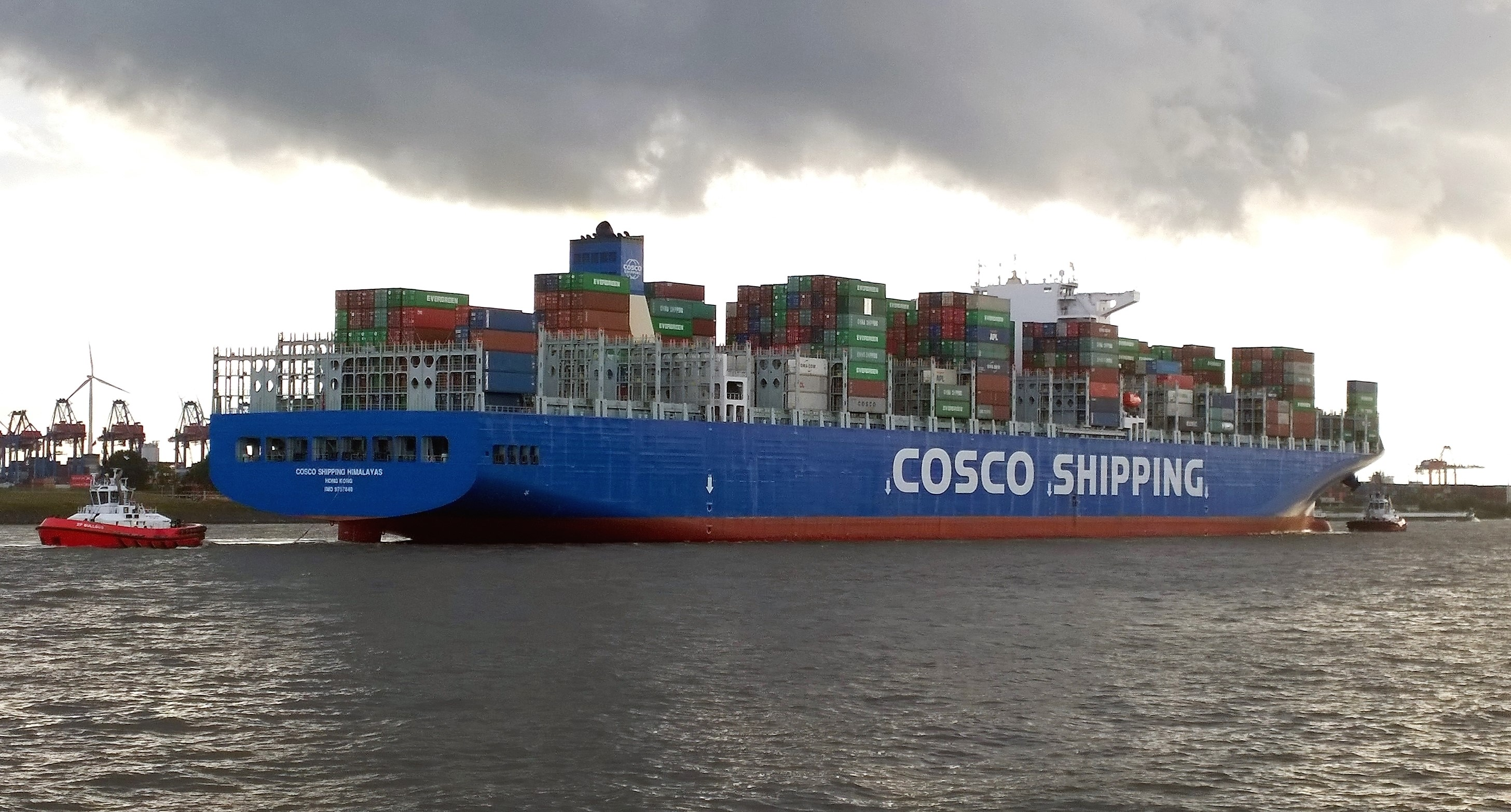 The new container ship COSCO SHIPPING HIMALAYA in port of Hamburg - rear view